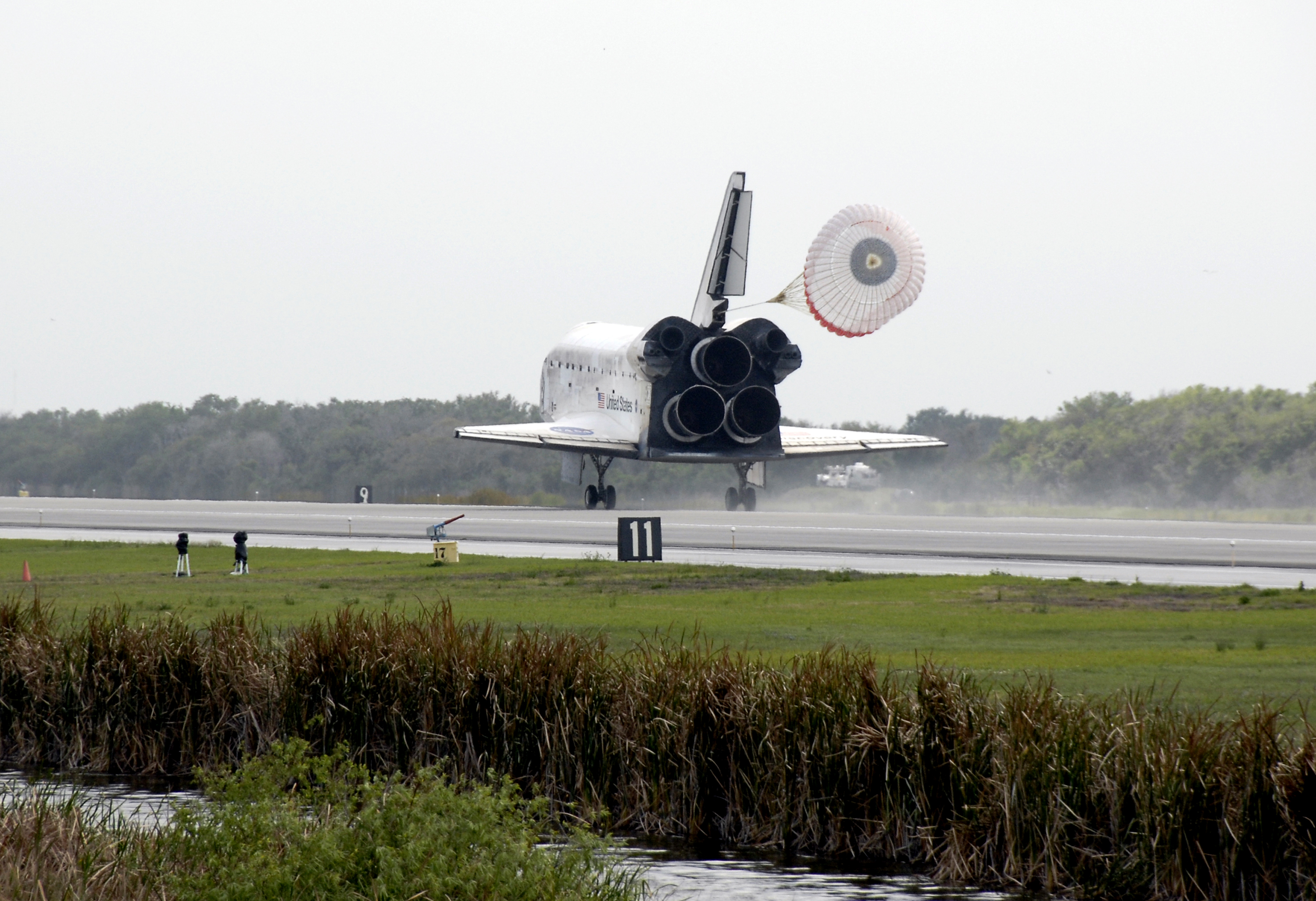 CAPE CANAVERAL, Fla. – With the aid of a drogue chute, space shuttle Discovery slows for landing on Runway 15 at NASA's Kennedy Space Center in Florida to complete the 13-day, 5.3-million mile journey on the STS-119 mission to the International Space Station. Main gear touchdown was at 3:13:17 p.m. EDT. Nose gear touchdown was at 3:13:40 p.m. and wheels stop was at 3:14:45 p.m. Discovery delivered the final pair of large power-generating solar array wings and the S6 truss segment. The mission was the 28th flight to the station, the 36th flight of Discovery and the 125th in the Space Shuttle Program, as well as the 70th landing at Kennedy.